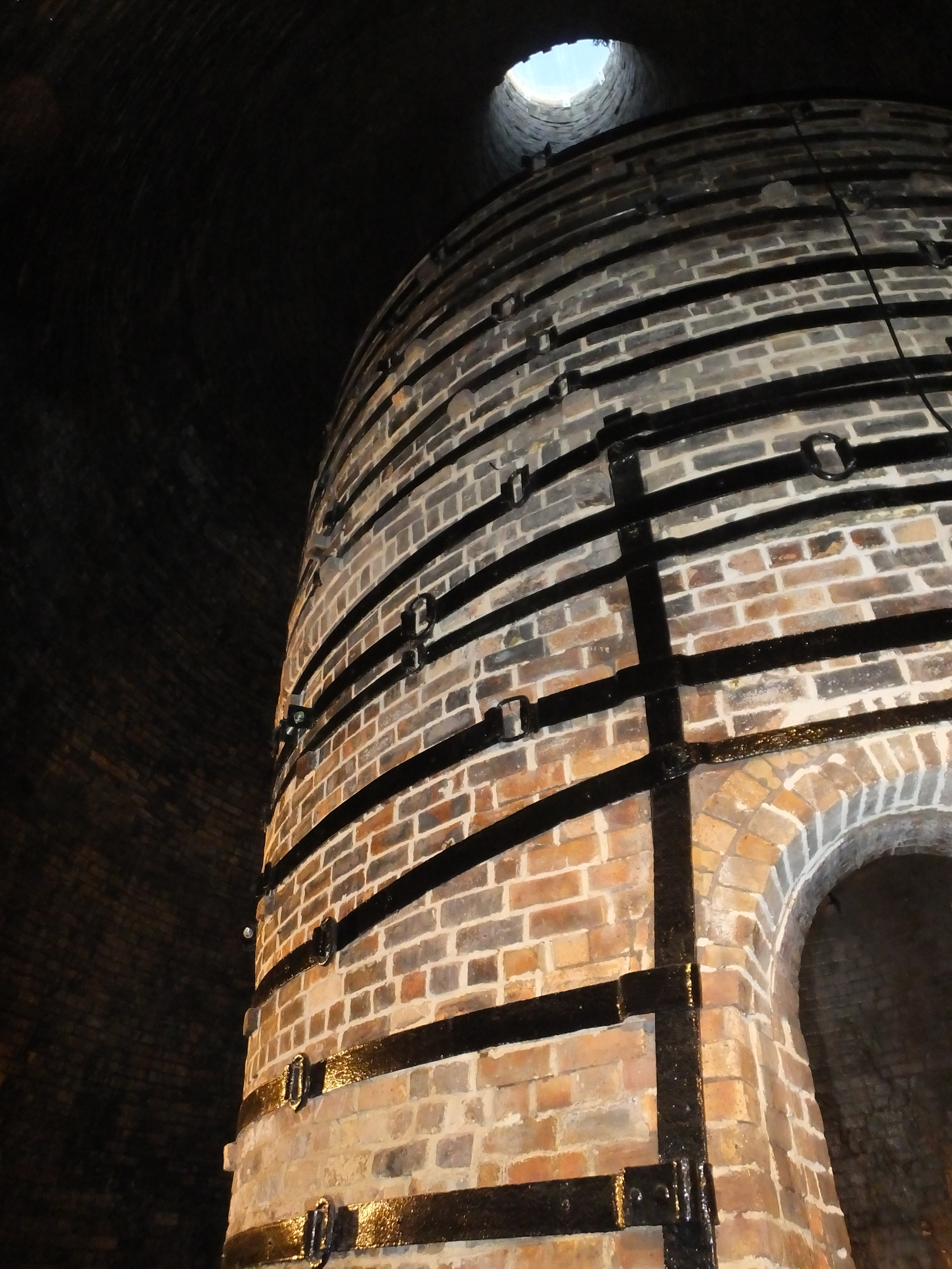 The Gladstone Pottery Museum The Gladstone Pottery Museum is a grade II* listed site in Stoke-on-Trent, with many protected features including the bottle kilns. Bottle oven A bottle oven is protected by an outer hovel which helps to create an updraught. The biscuit kiln was filled with saggars of green flatwares (bedded in flint) by placers. The doors (clammins) were bricked up and the firing began. Each firing took 14 tons of coal. Fires were lit in the firemouths and baited ever four hours, Flames rose up inside the kilns, heat passed between the bungs of saggars. They controlled the temperature of the firing using dampers in the crown. The temperature was gauged by watching the contraction of bullers rings place in the kiln. A kiln would be fired to 1250C The biscuitwares are glazed and fired again in the bigger glost kilns- again they are placed in saggers, separated by kiln furniture such as stints, saddles and thimbles. The enamel (or muffle kiln) is of different construction- it fired at 700C. The pots were stacked on 7 or 8 levels of clay bats (shelves). The door was iron lined with brick.